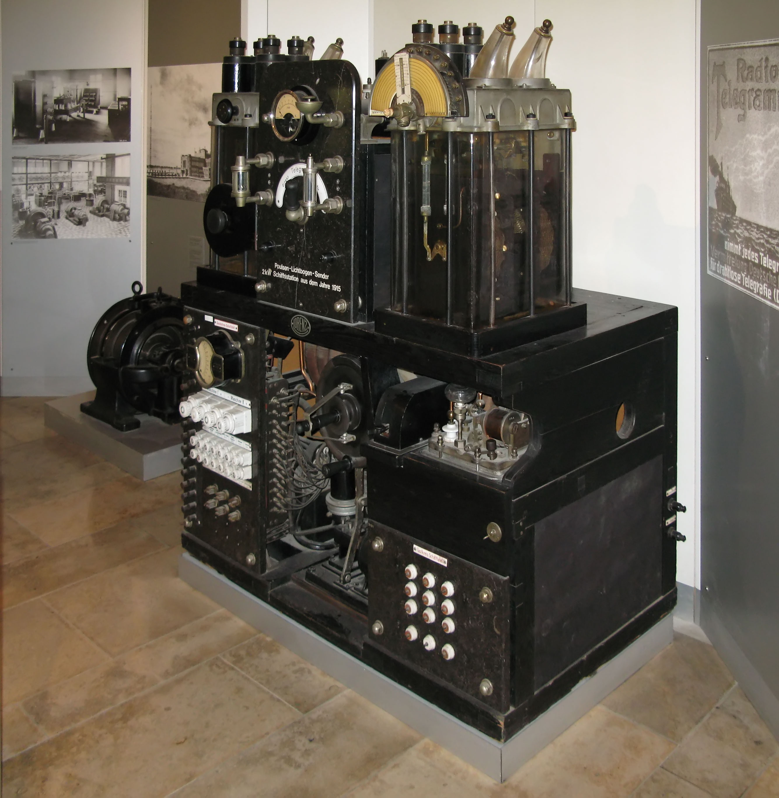 Poulsen arc radio transmitter, ca. 1920, photographed in Deutschen Museum, Munich